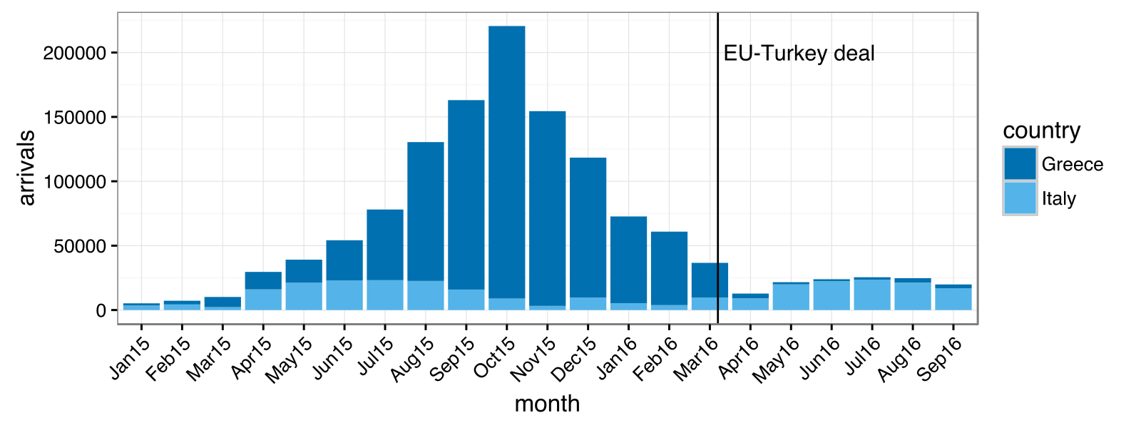 Mediterranean Sea arrivals to Greece (dark blue) and Italy (light blue) in 2015, according to UNHCR data